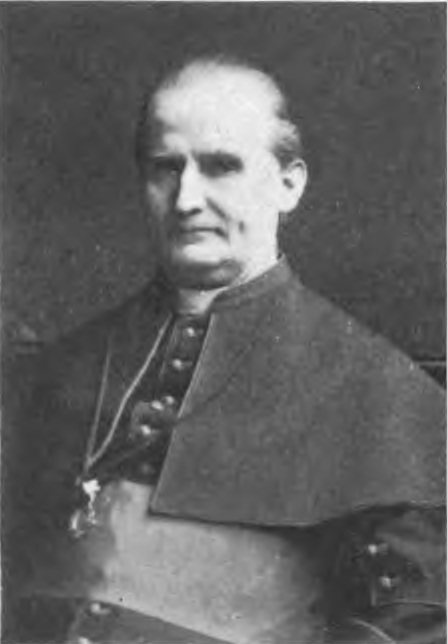 An image of Nelson Baker taken from a 1914 publication entitled "The Catholic Church in the United States of America: Undertaken to Celebrate the Golden Jubilee of His Holiness, Pope Pius X, Volume 3." This photograph can be found on page 459.